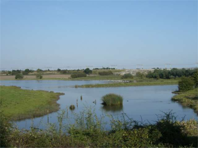 Elton Flashes Nature Reserve